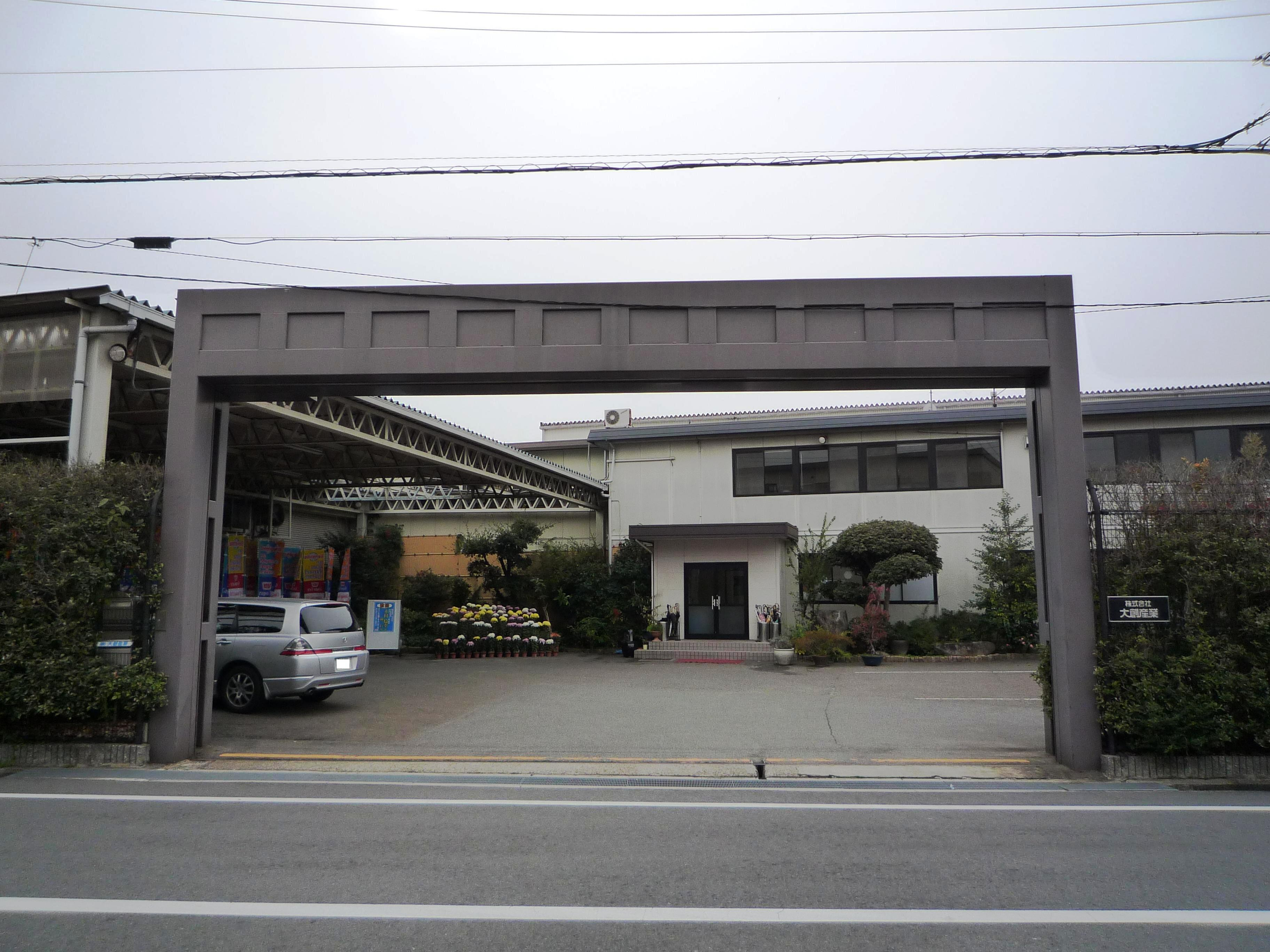 The headquarters of Daiso Industries.